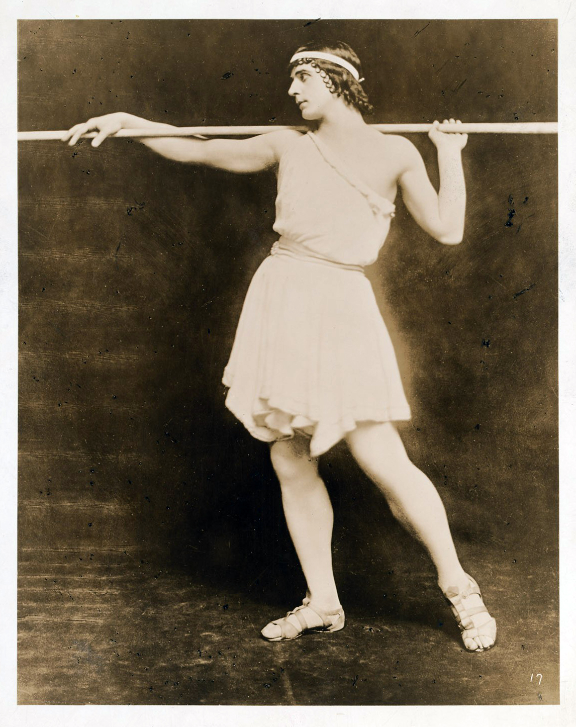 Photographic image of Russian dancer Michel/Mikhail Fokine (1880 – 1942), in costume for Daphnis and Chloe, 1912. MS Thr 414.2 (44), Harvard Theatre Collection, Houghton Library, Harvard University